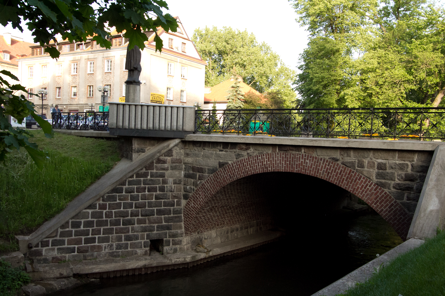 The Saint John Nepomucen Bridge in Olsztyn